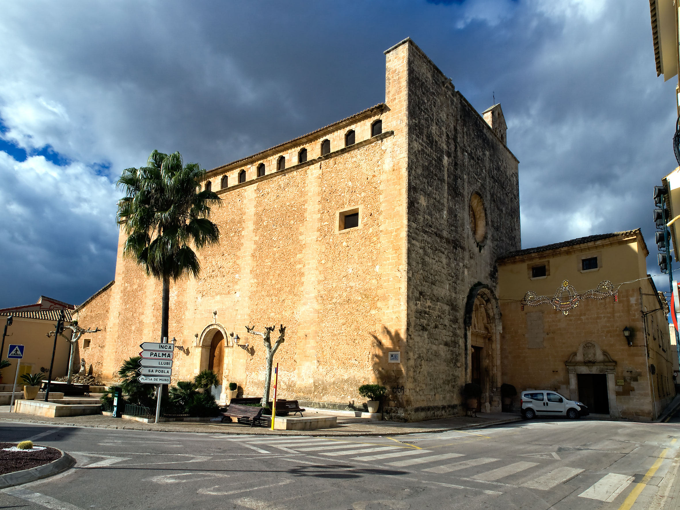 Muro church (Mallorca)